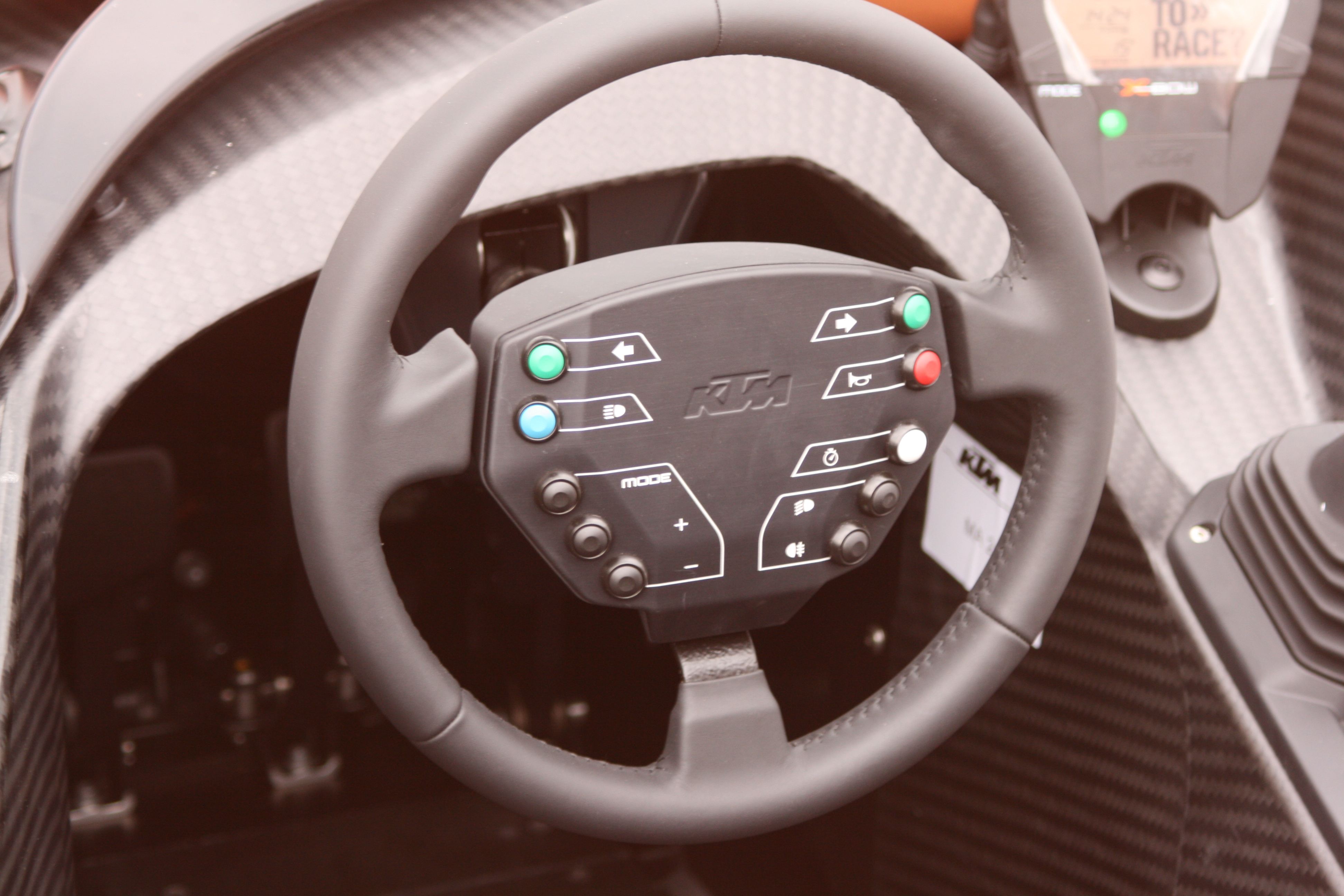 X-Bow wheel